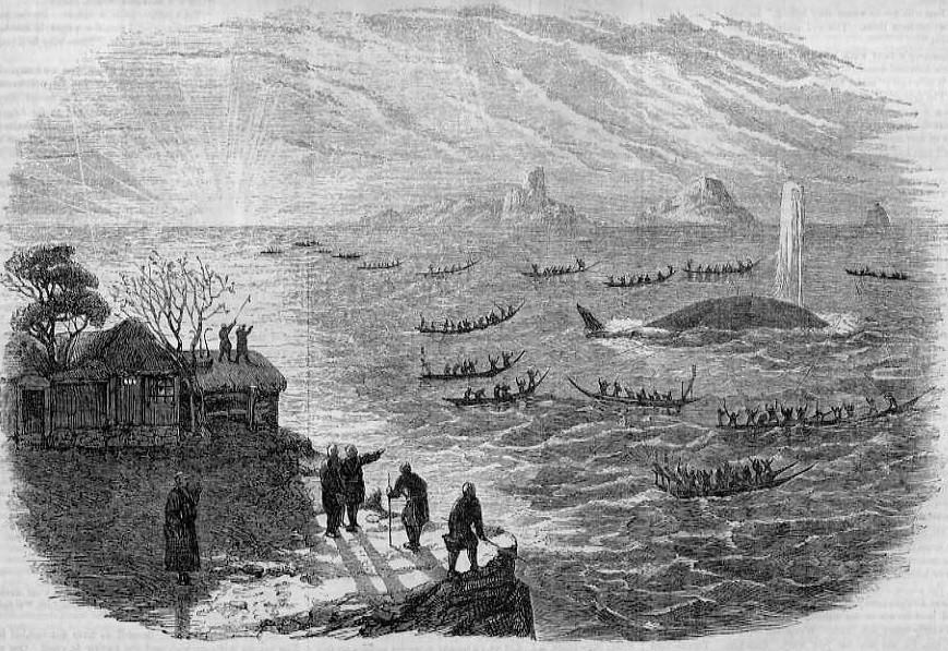 Whaling Scene on the Coast of Japan, an engraving published November 1855 in Ballou's Pictorial Drawing-Room Companion, Boston, Massachusetts.